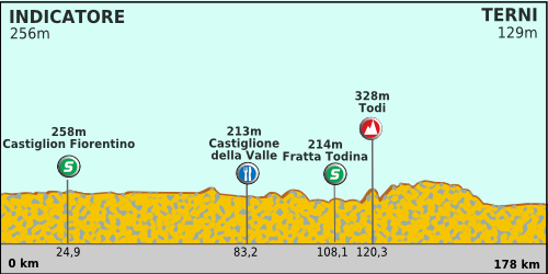 Tirreno Adreatico 2012 stage 3